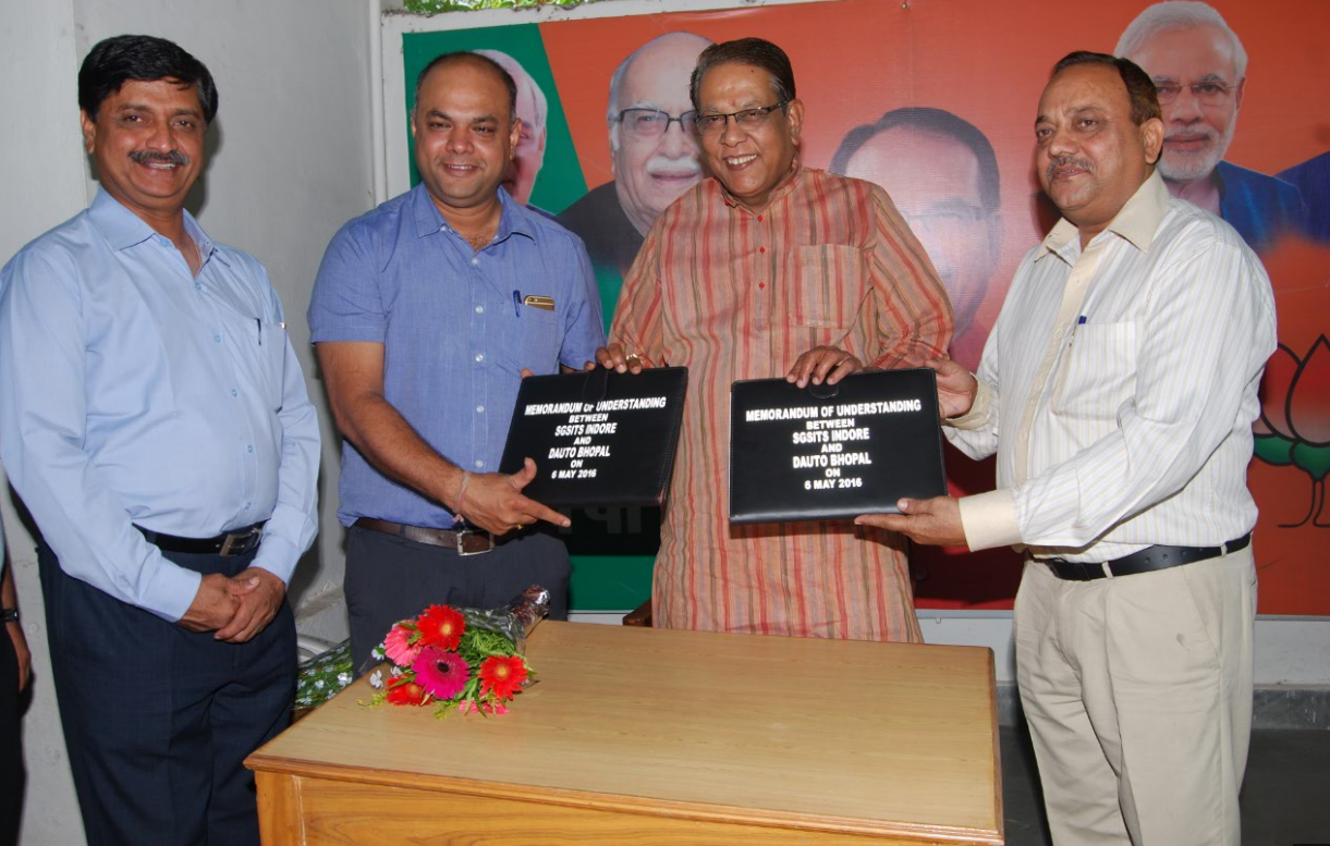 A Memorandum of Understanding signed between DAuto Engineering Private Limited and Shri Govindram Seksaria Institute of Technology and Science Indore, accompanied by Shri Umashankar Gupta (Technical Education Minister, M.P.), Dr. Ashish Dongre (Director, Directorate of Technical Education), and The MOU got exchanged between Dr. Rakesh Kumar Saxena (Director, SGSITS) and Shri Vikas Pandey (Director, DAuto).